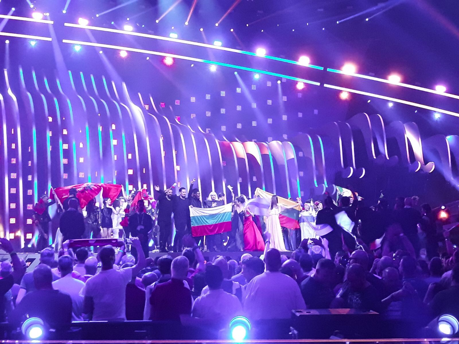 The 10 qualifiers from the 1st semifinal of the Eurovision Song Contest 2018